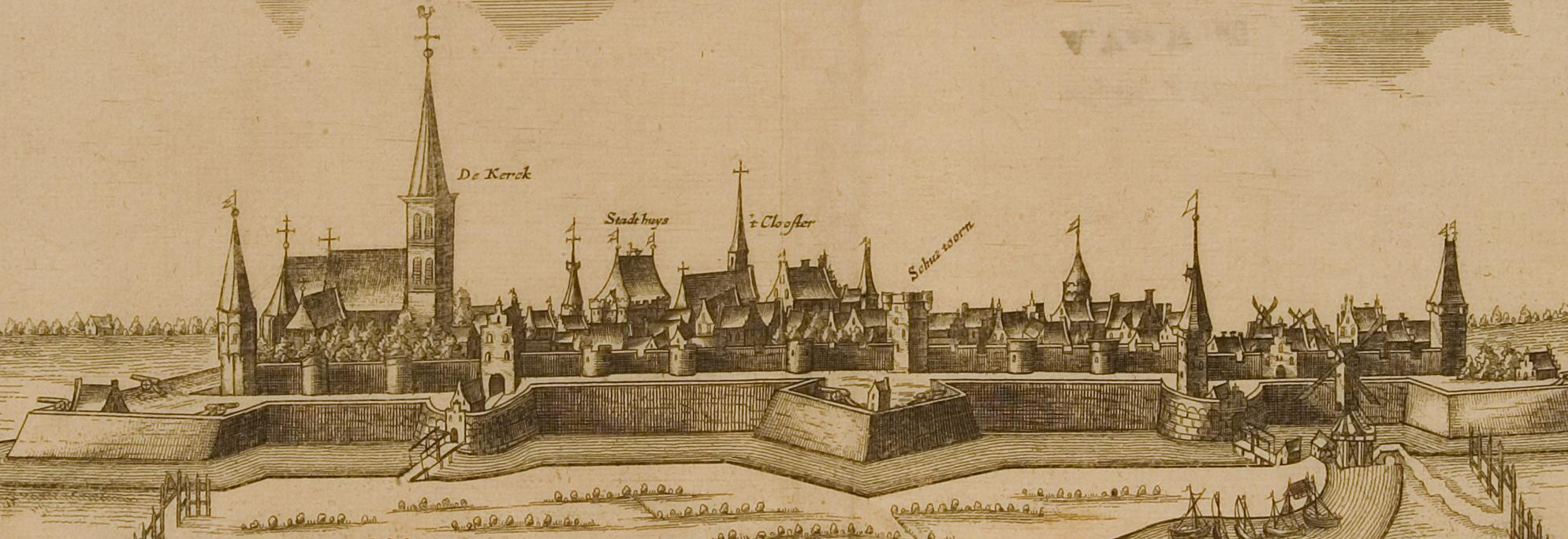 Elburg, Seen from the east